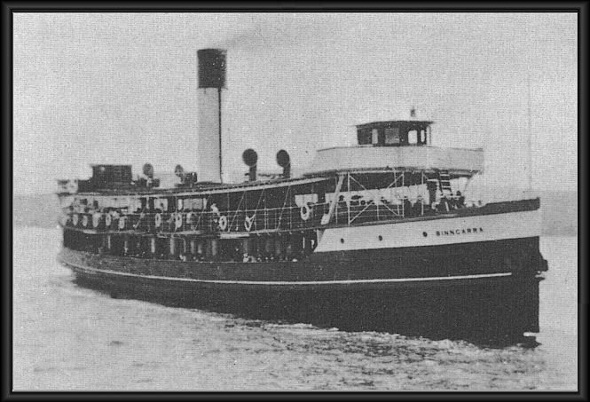 Sydney Ferry BINNGARRA Manly ferry SS Binngarra launched in 1905. She was built with open railings around the wheelhouse which were clad with canvas on the sides and part of the front around 1912. They appear to have been replaced by solid timber railings in this photo, which would make the picture 1918-25.